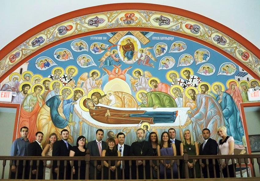 "Dormition of the Most Holy Birthgiver of God" fresco on the western wall of the Cathedral, completed 2010, donated by the MOPS of Columbus; some of its members present on the photograph together with the zograf (fresco-painter) Fr. Theodore Jurewicz